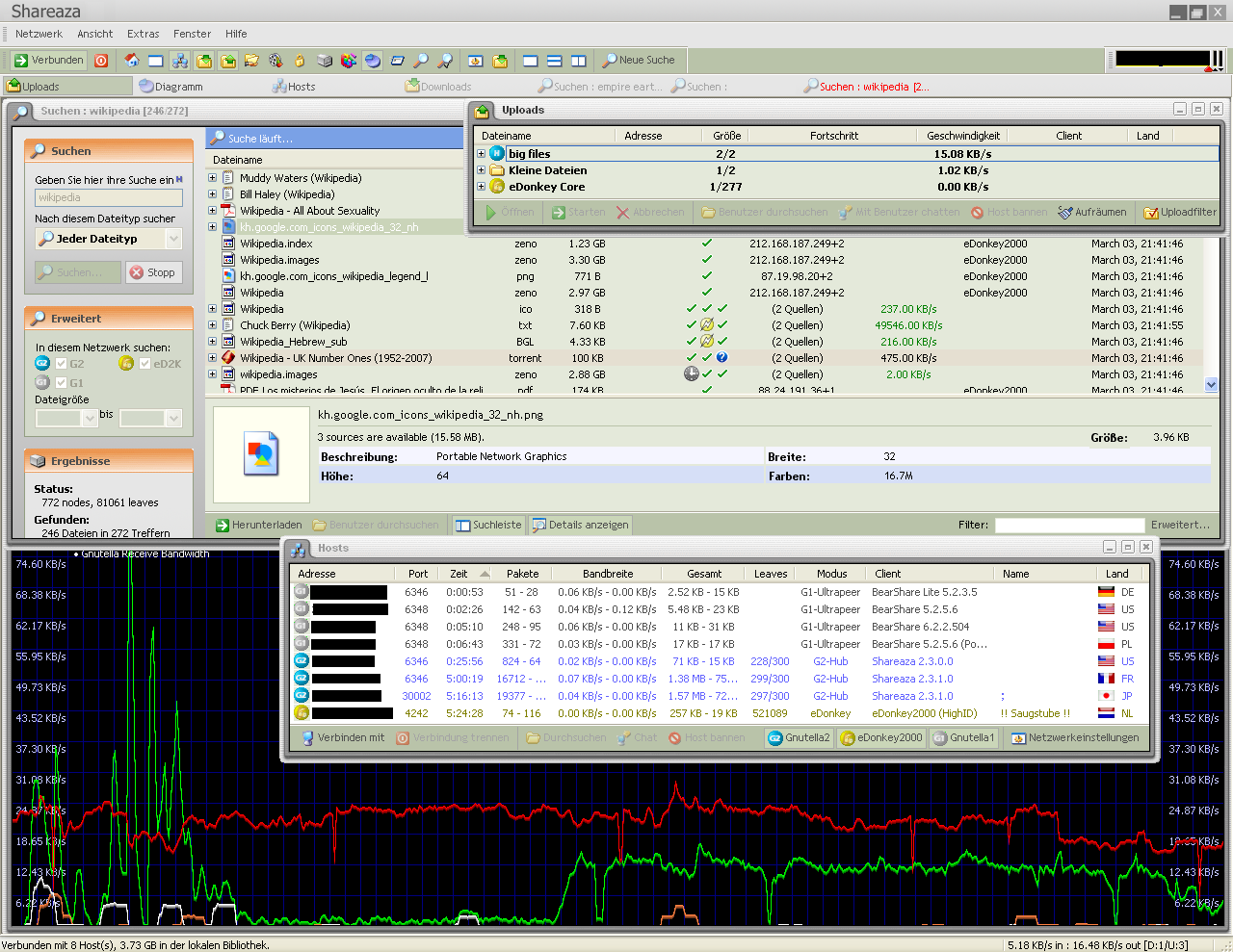 Screenshot ot Shareaza, a P2P filesharing application using the Gnutella1 (G1), Gnutella2 (G2), edonkey2000 (ed2k) and BitTorrent (BT) protocols.